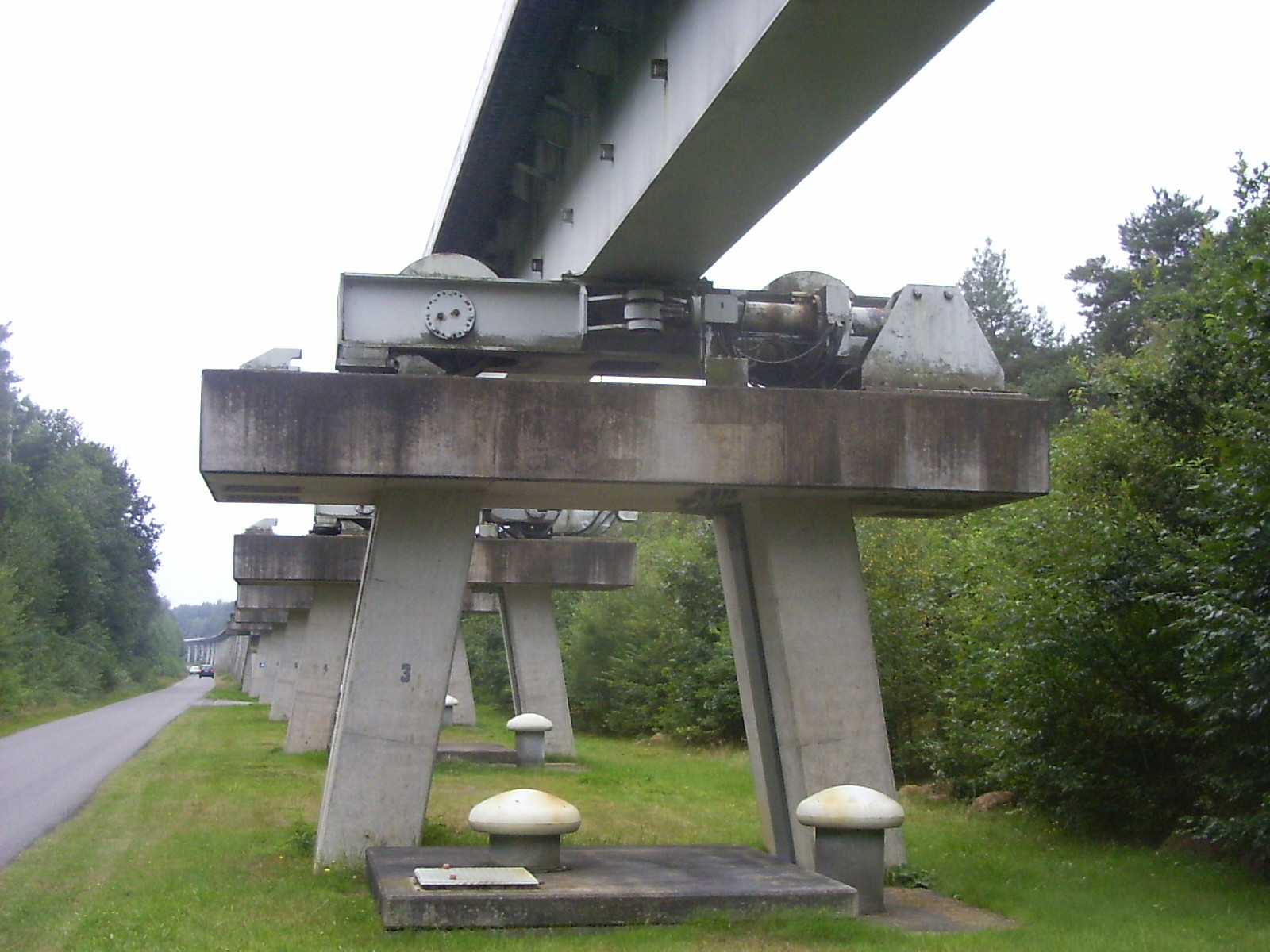 Transrapid maglev train, sideways movable rail at the southern switch